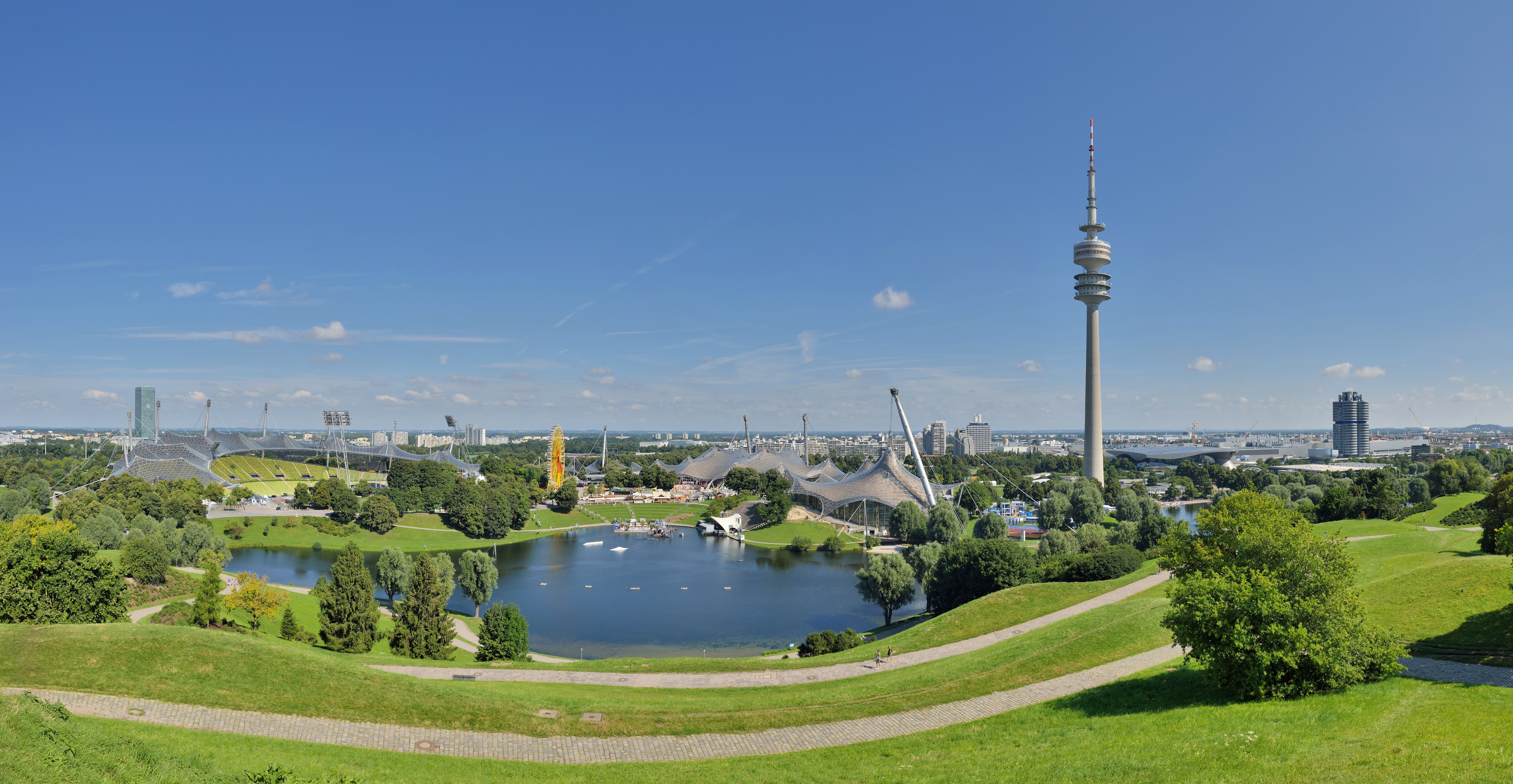 Munich: olympic parc